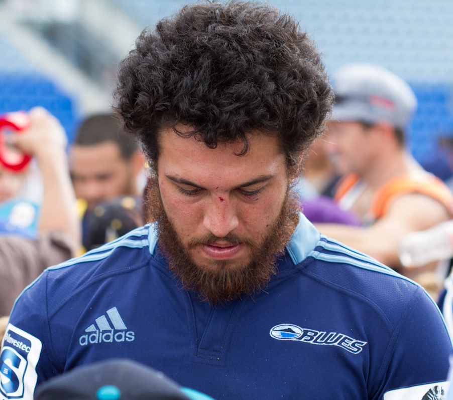 Blues V Tahs Pre Season